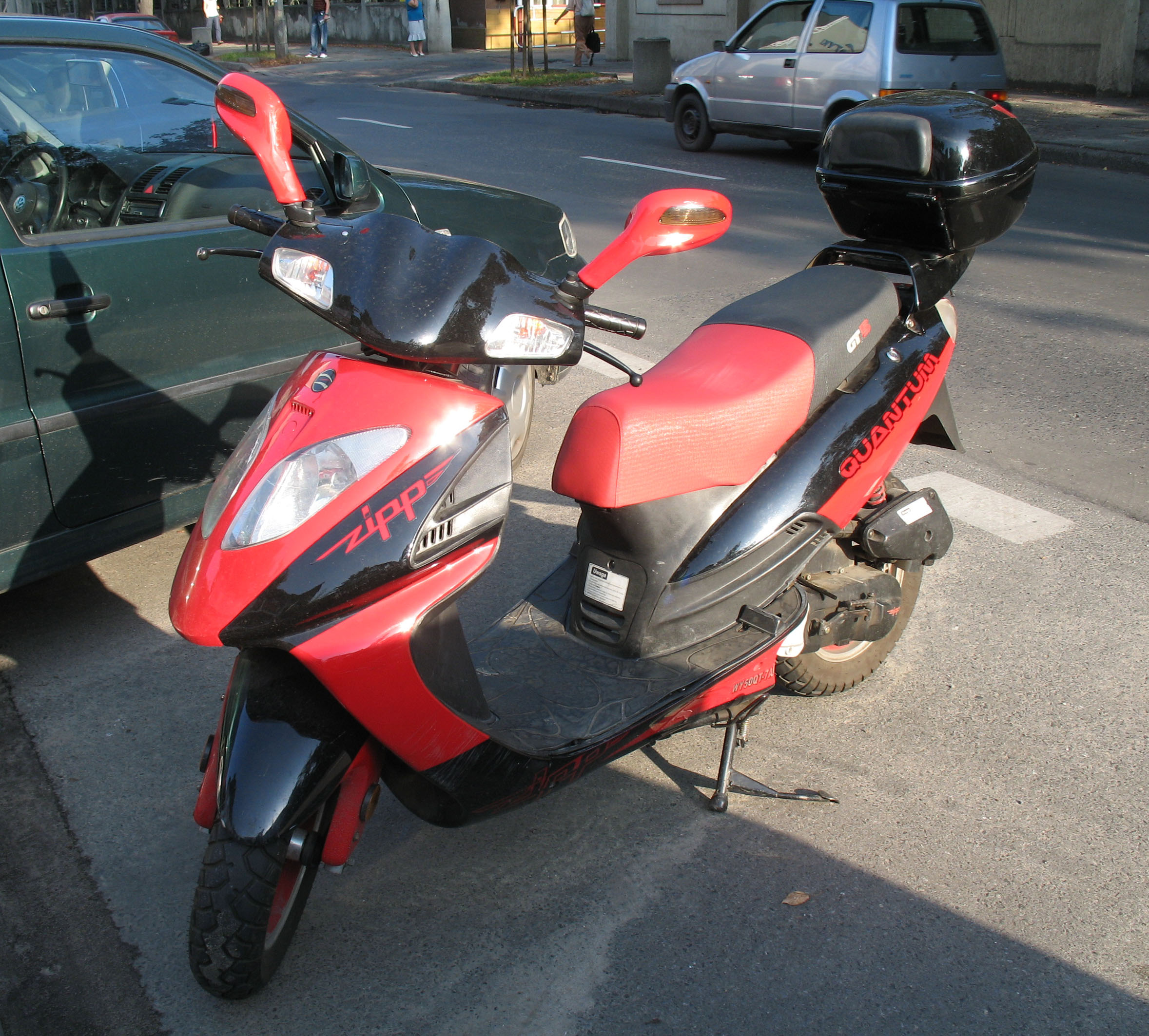 Zipp Quantum GT5 scooter in Kraków, Poland.